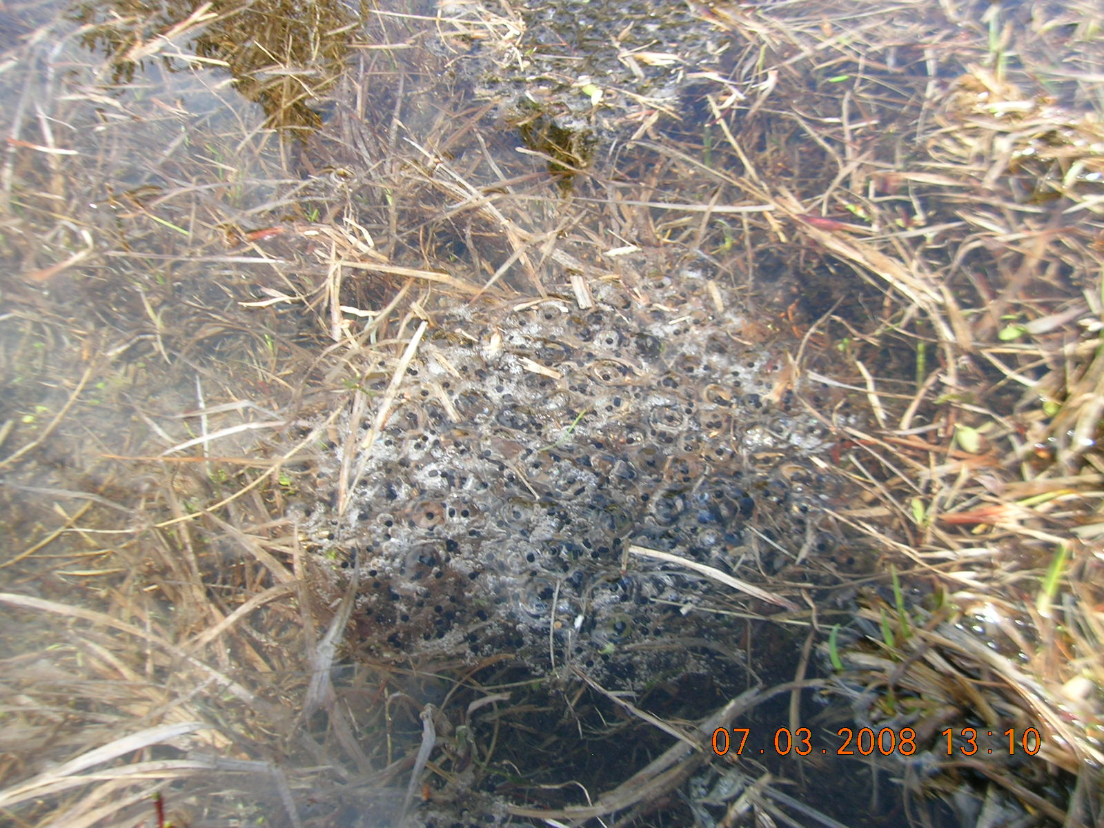 Columbia spotted frog (Rana luteiventris) eggs in the Sawtooth National Recreation Area, Idaho